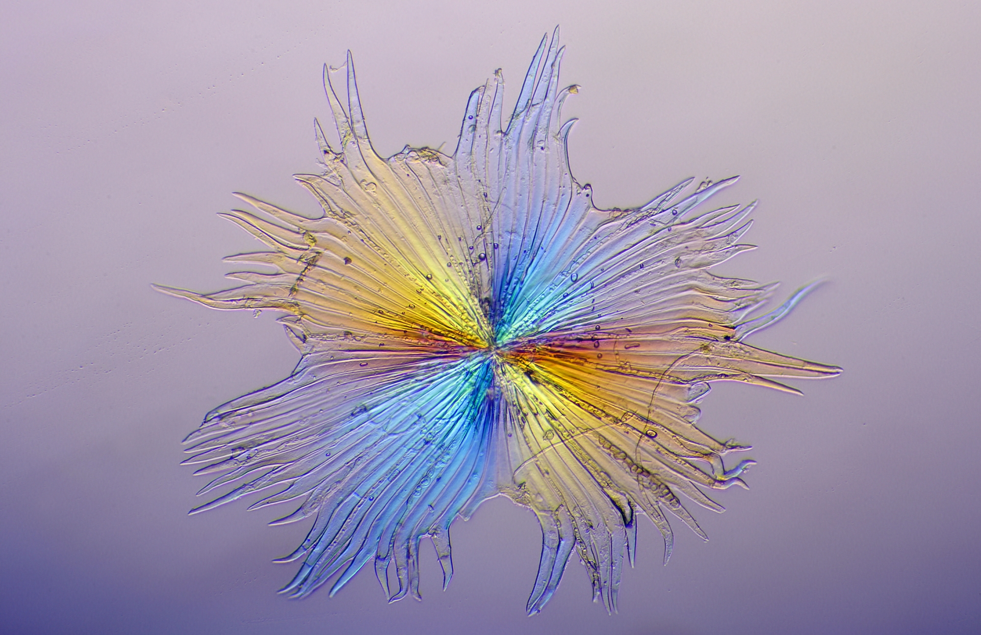 Botanik